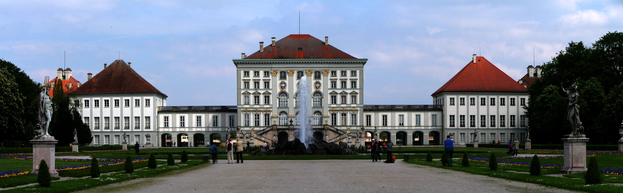 Panorama of Nymphenburg Palace, view from the park